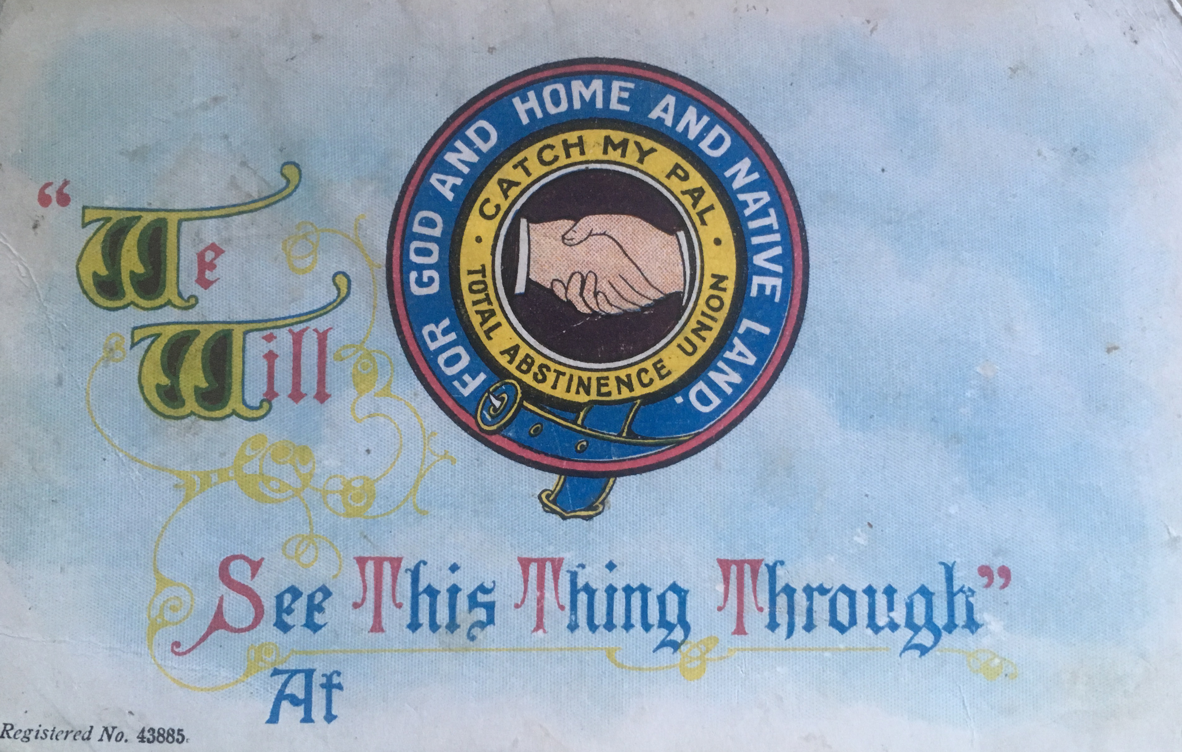 Photograph of a postcard bearing the logo and slogan of the Catch-my-Pal Protestant Total Abstinence Union.